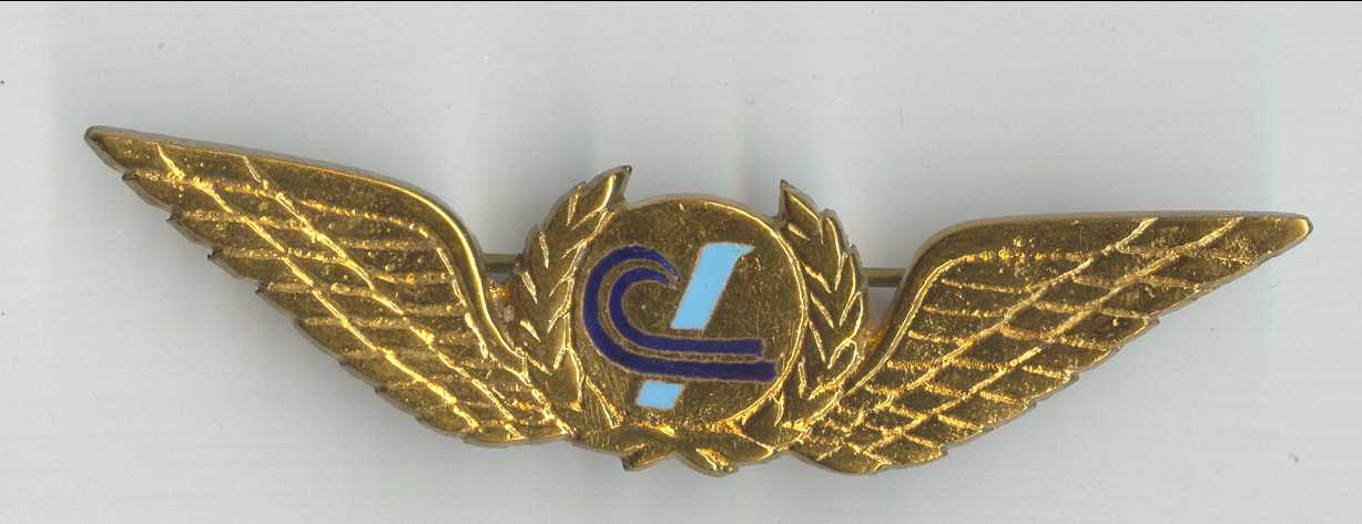 Vayudoot Flight Crew Wings